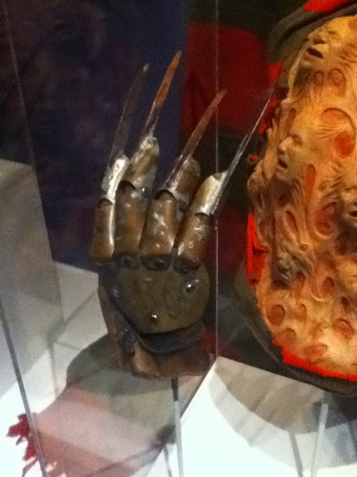 Freddy Krueger claw used in the 4th adaption of Nightmare on Elm Street